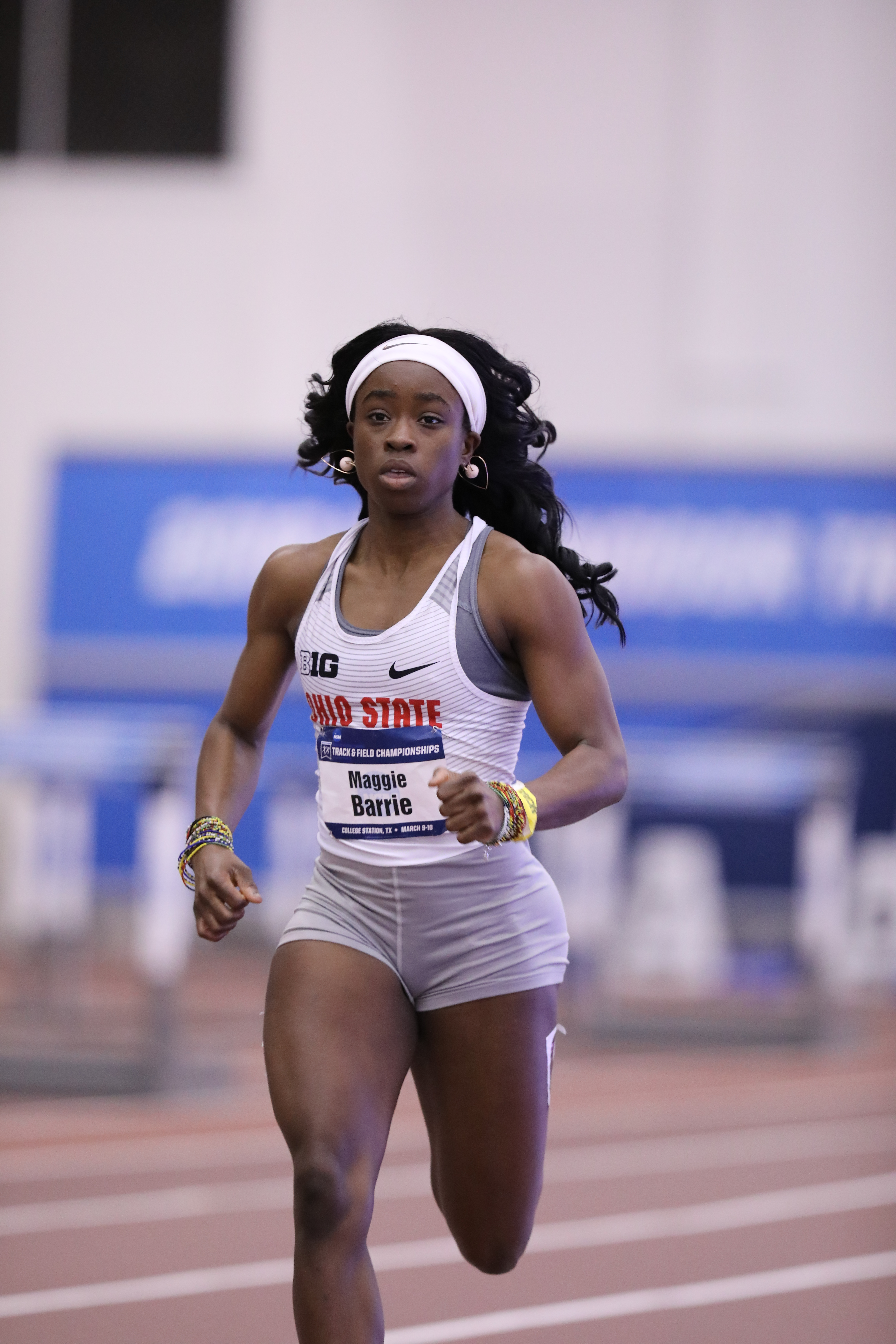 Maggie Barrie from a 2018 NCAA meet